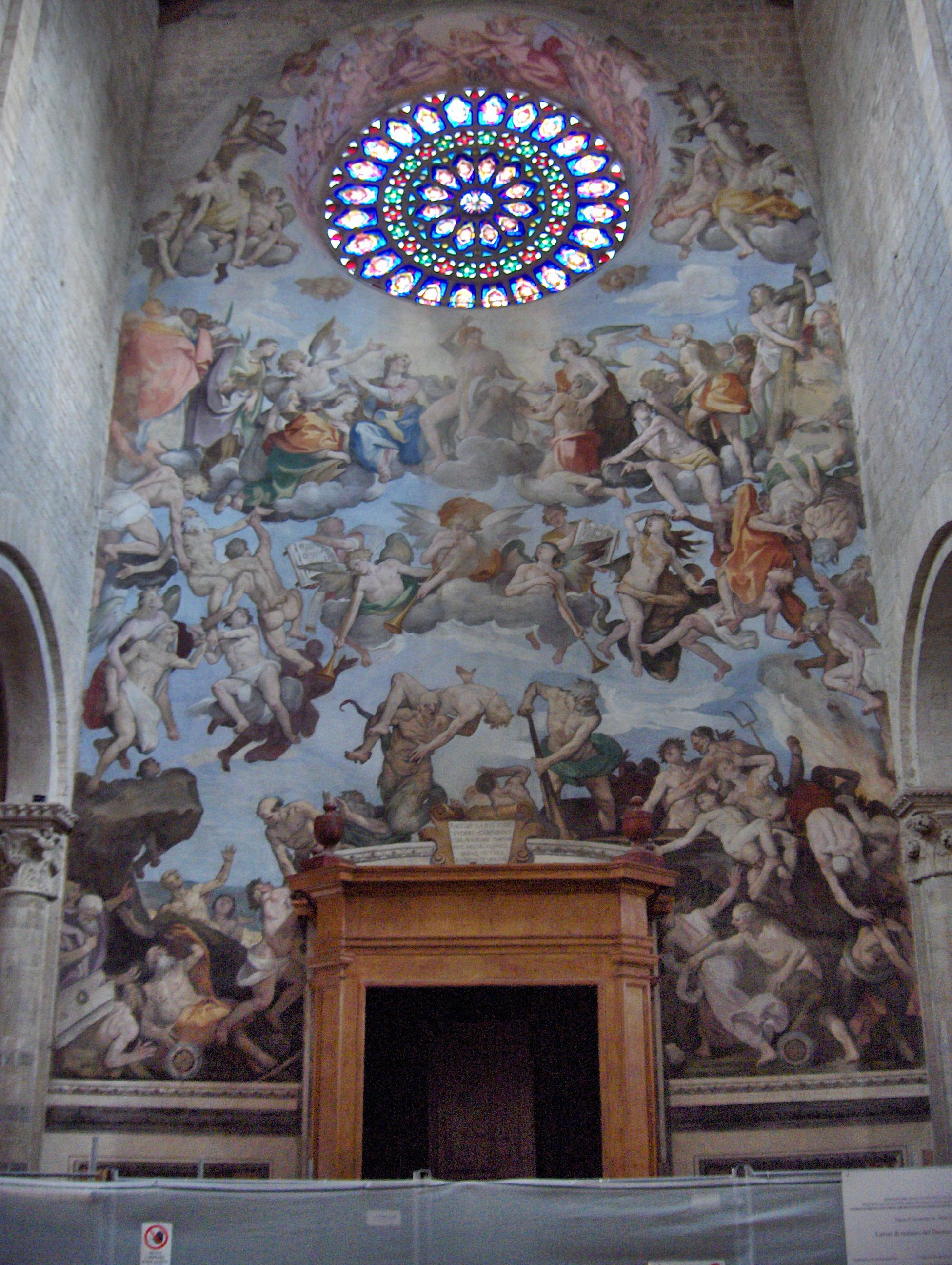 The counter-façade is occupied by a giant fresco depicting the "Universal Judgment" by Ferraù Faenzone; cathedral of Todi, Italy